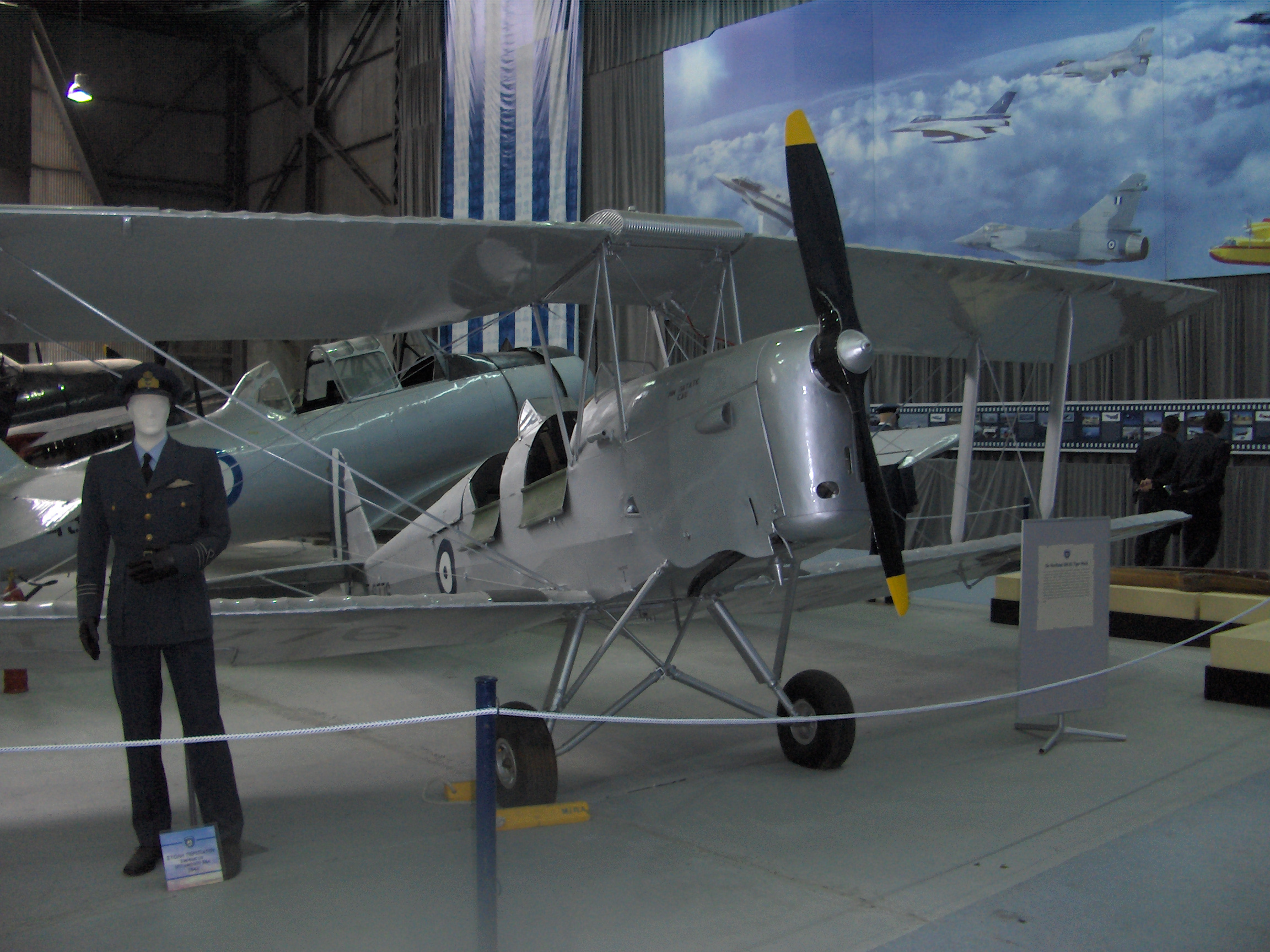 Exhibit at the Hellenic Air Force Museum at Dekelia (Tatoi), Athens, Greece. De Havilland DH.82 Tiger Moth